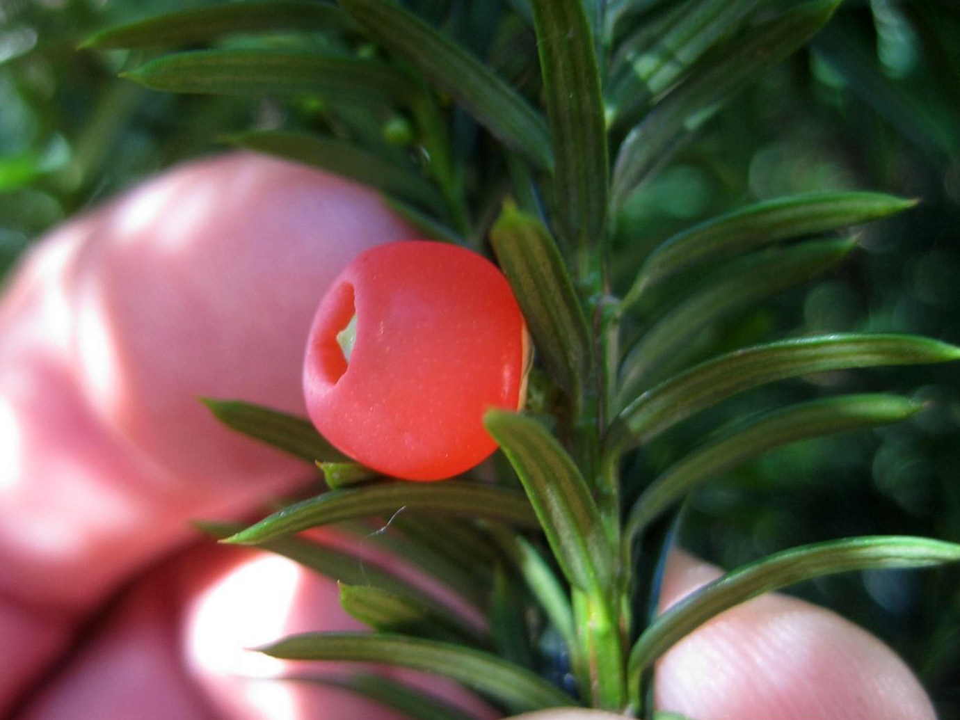 Canada yew (Taxus canadensis Marsh.) fleshy cone (Aug. 11), Sault Ste. Marie, Ontario, Canada